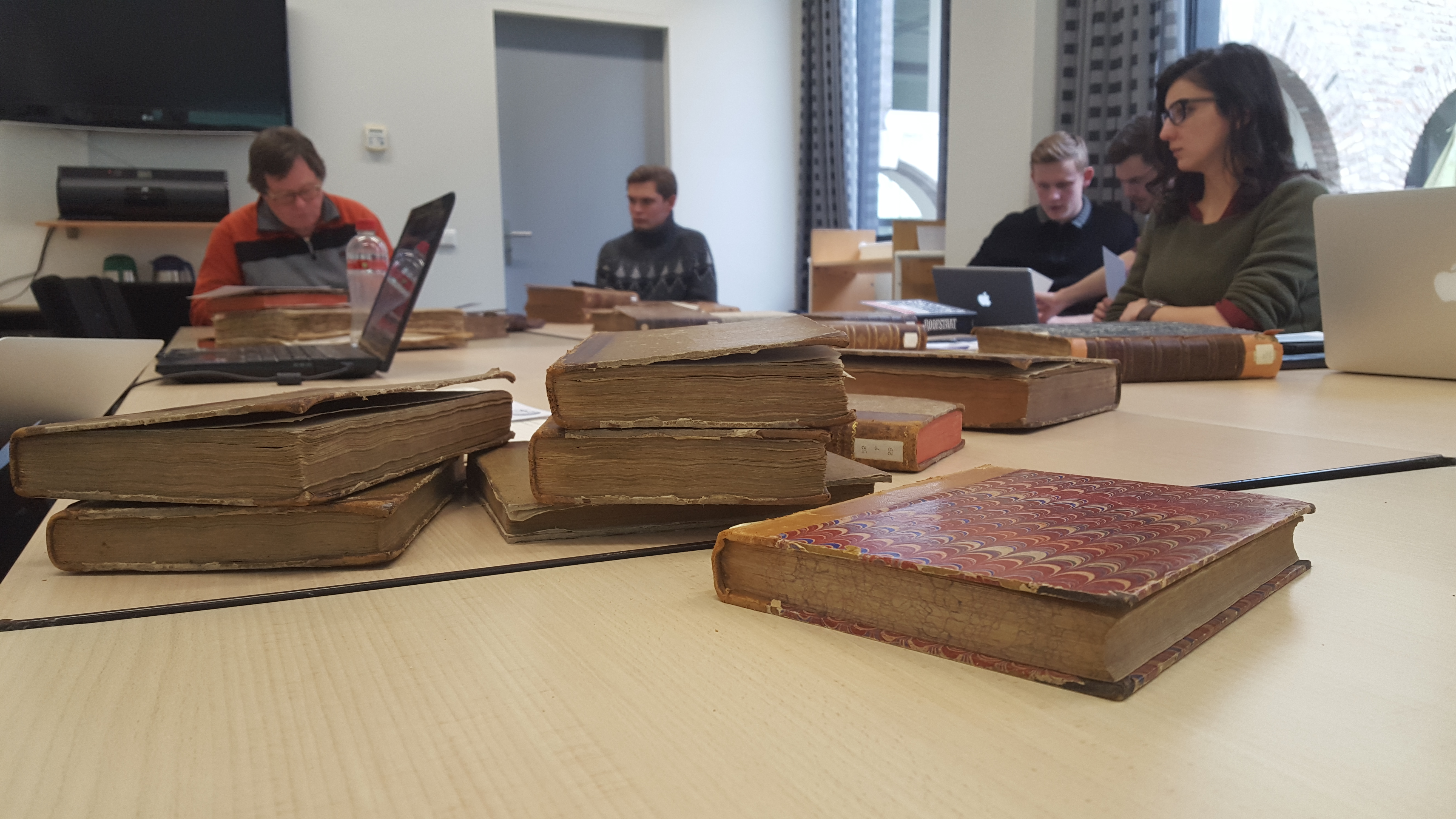 Wikipedia course at Maastricht University during Spring 2016: On Expedition